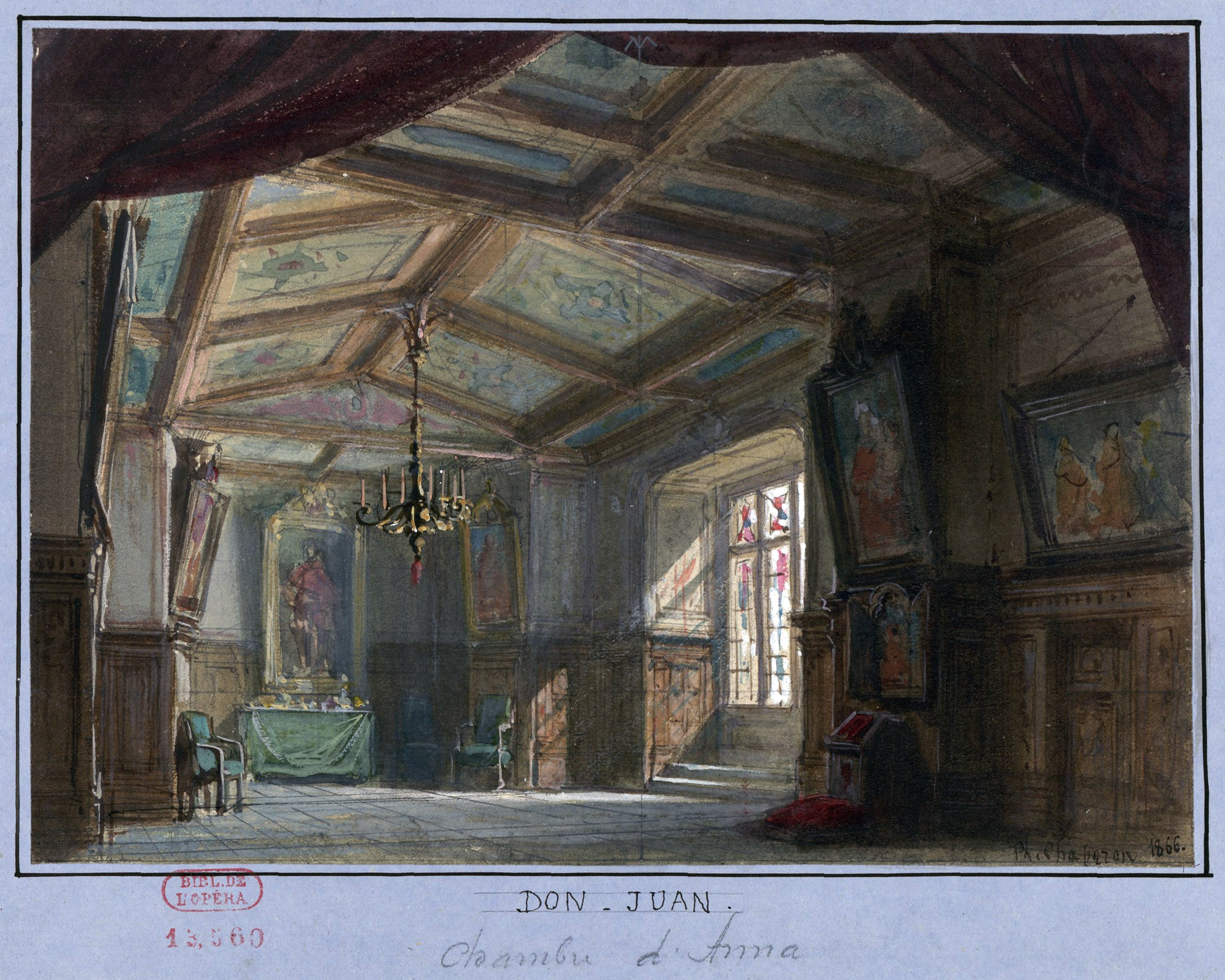 Set design for Act 4, tableau 1, of Mozart's Don Juan, Donna Anna's chamber, as performed at the Théâtre Lyrique on 8 May 1866.